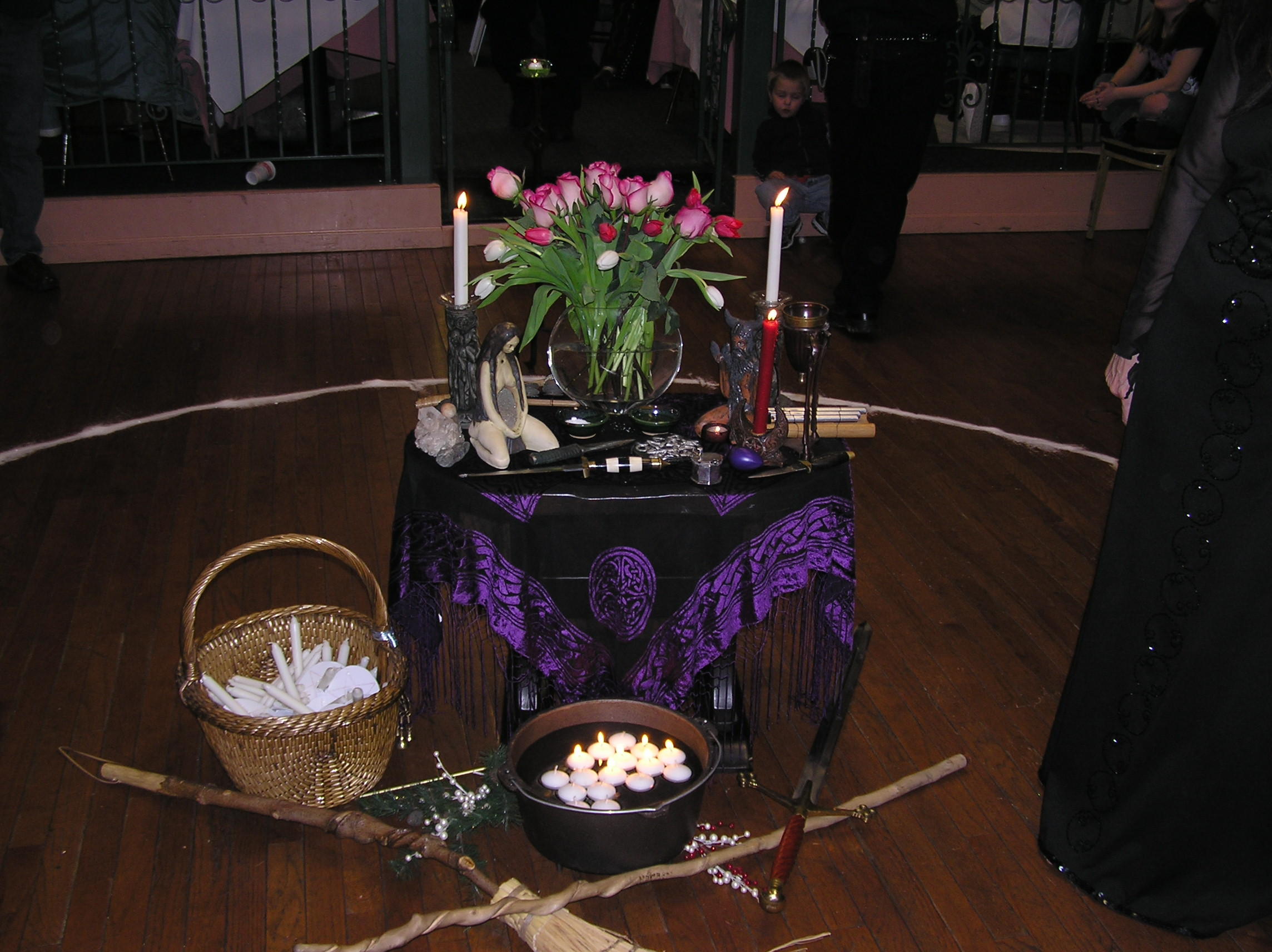 Altar for Reading Pagan's & Witches Imbolc Gathering & Expo.